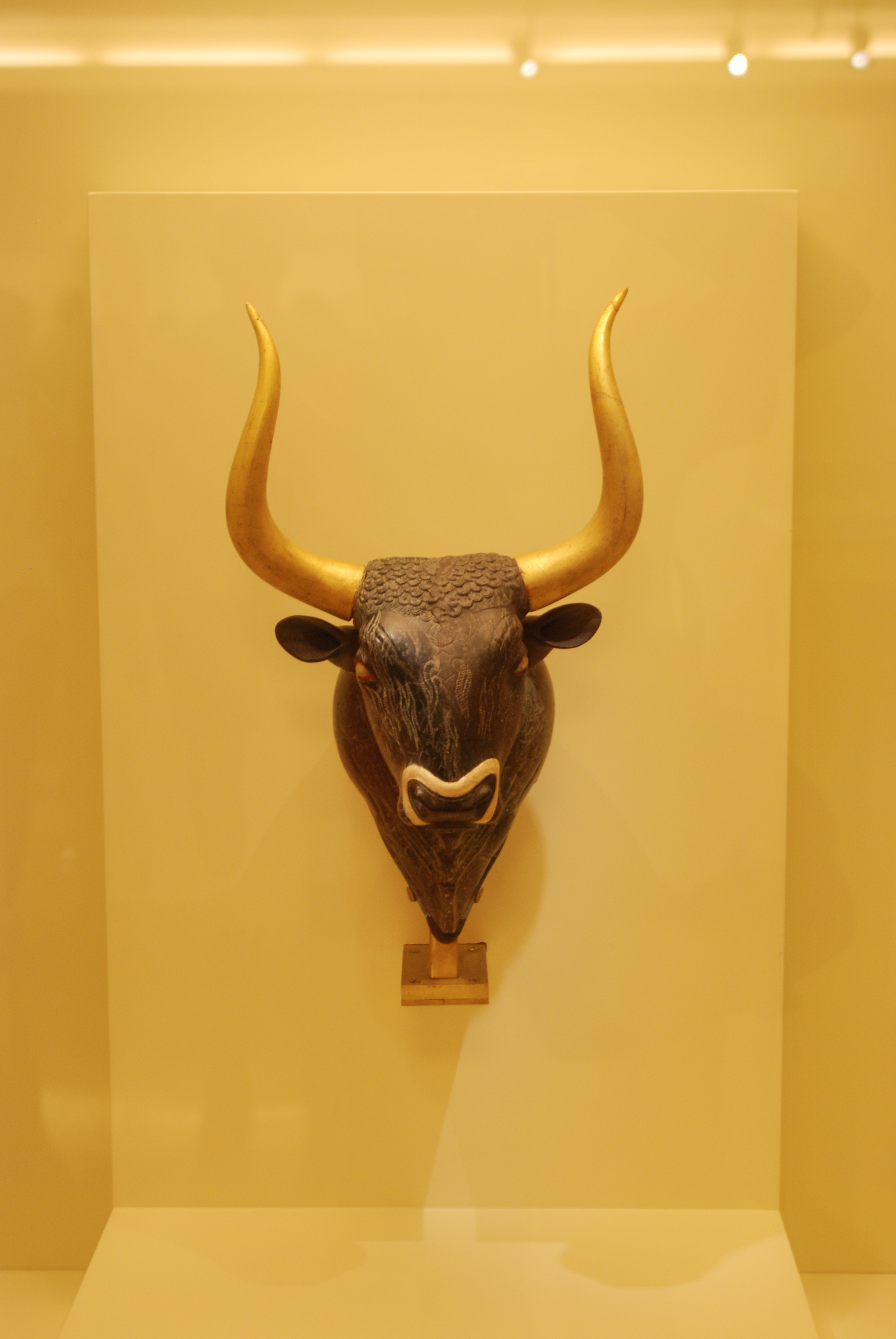 Minoan Head Bull, Heraklion Archaeological Museum. 1600 BC-1500 BC.